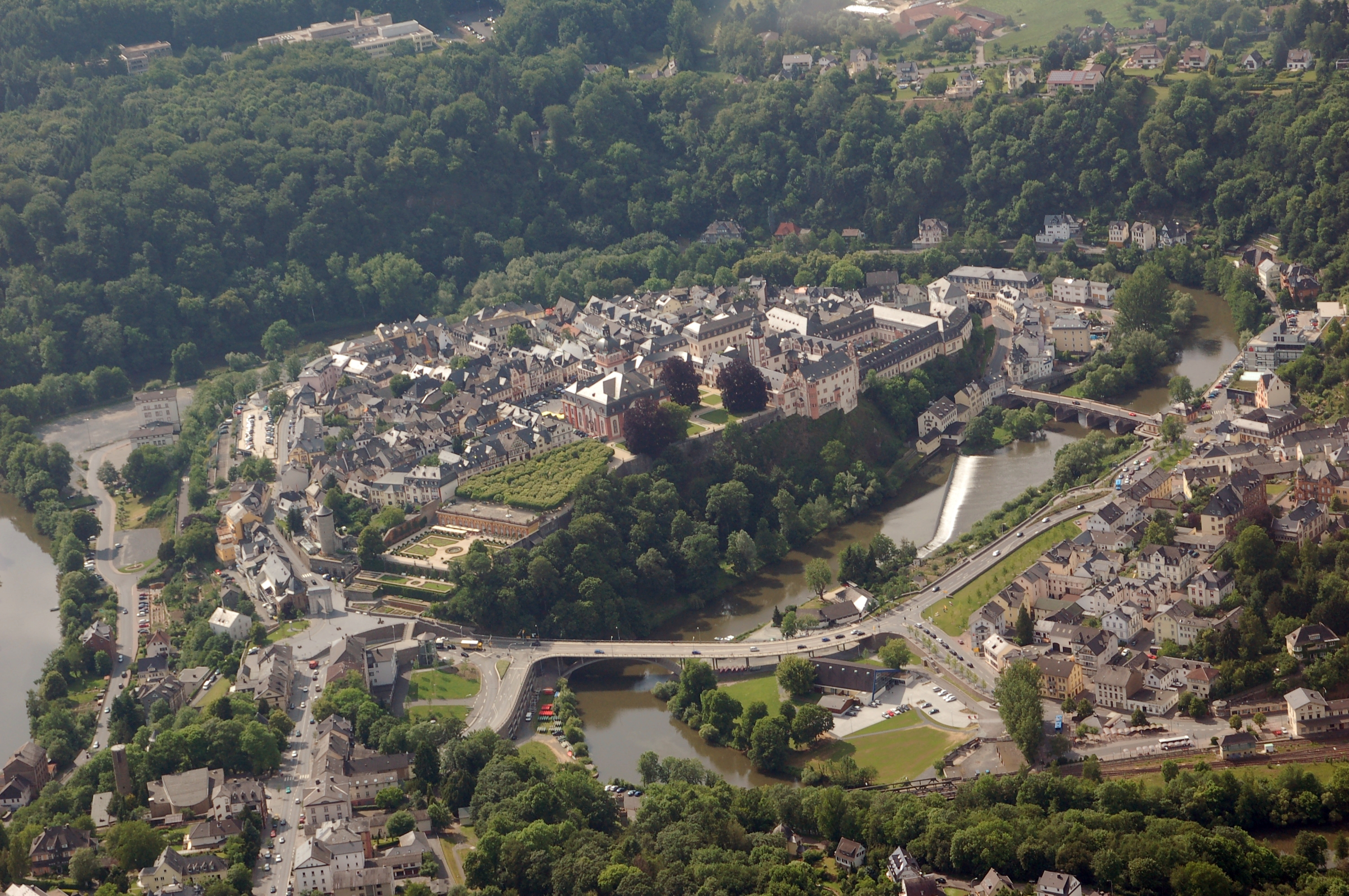 Aerial photograph of Weilburg, Hesse, Germany